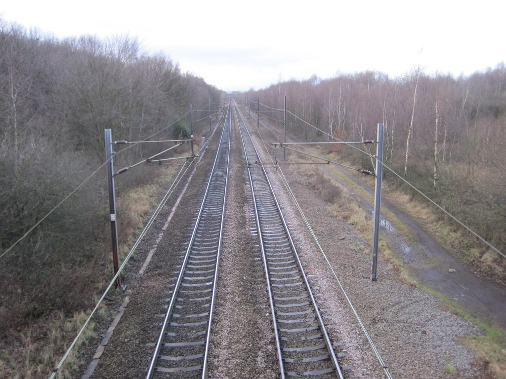 Nostell railway station (site), YorkshireOpened in 1866 jointly by the Great Northern Railway and the Manchester, Sheffield & Lincolnshire Railway on the line from Doncaster to Wakefield, this station closed in 1951. View north west towards Hare Park & Crofton, and Wakefield. The main station building used to be on the left.